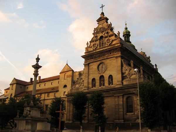 The monastery of bernardines, Lviv